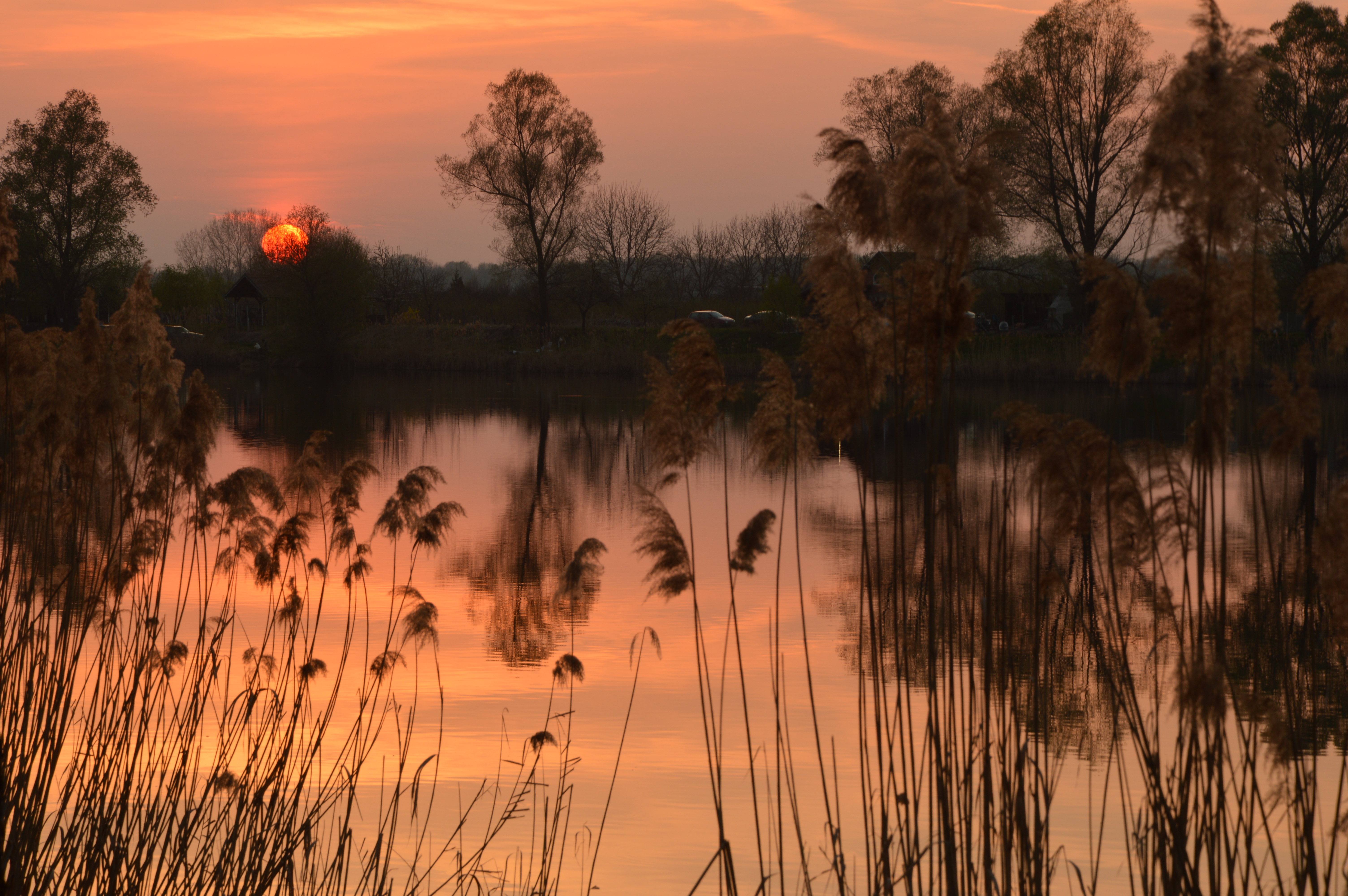 Colorful sunset by the river This is a a photo of a natural area in Croatia with ID: RP02